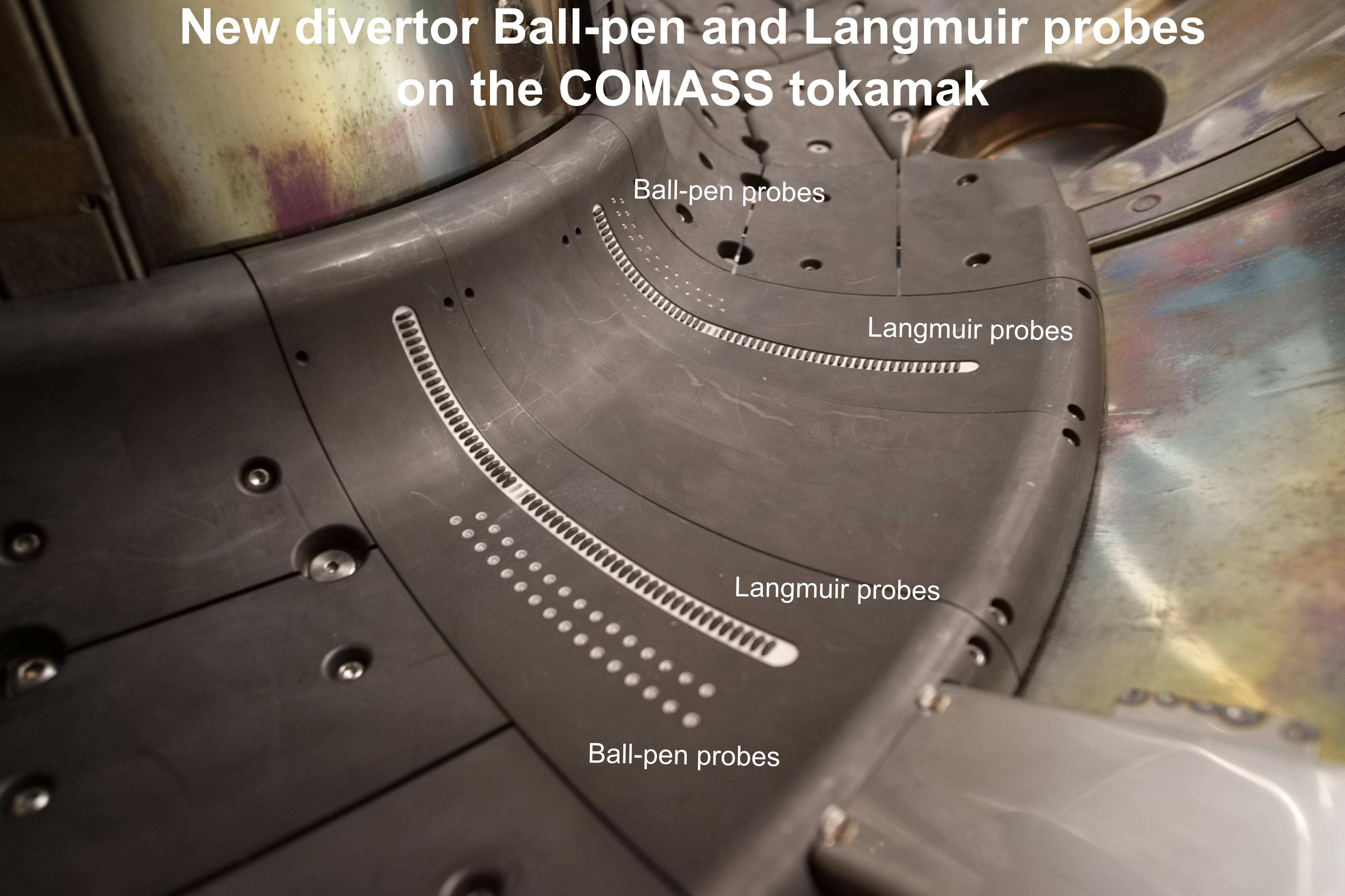 The array of ball-pen and Langmuir probes installed directly to the divertor target on the COMPASS tokamak.